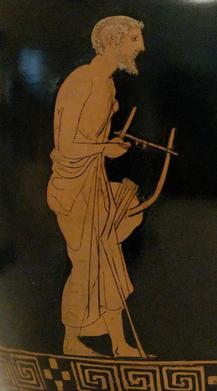 A young man and his music teacher, holding a lyre, perhaps Herakles and Linos. Attic red-figure amphora, ca.440–430 BC.